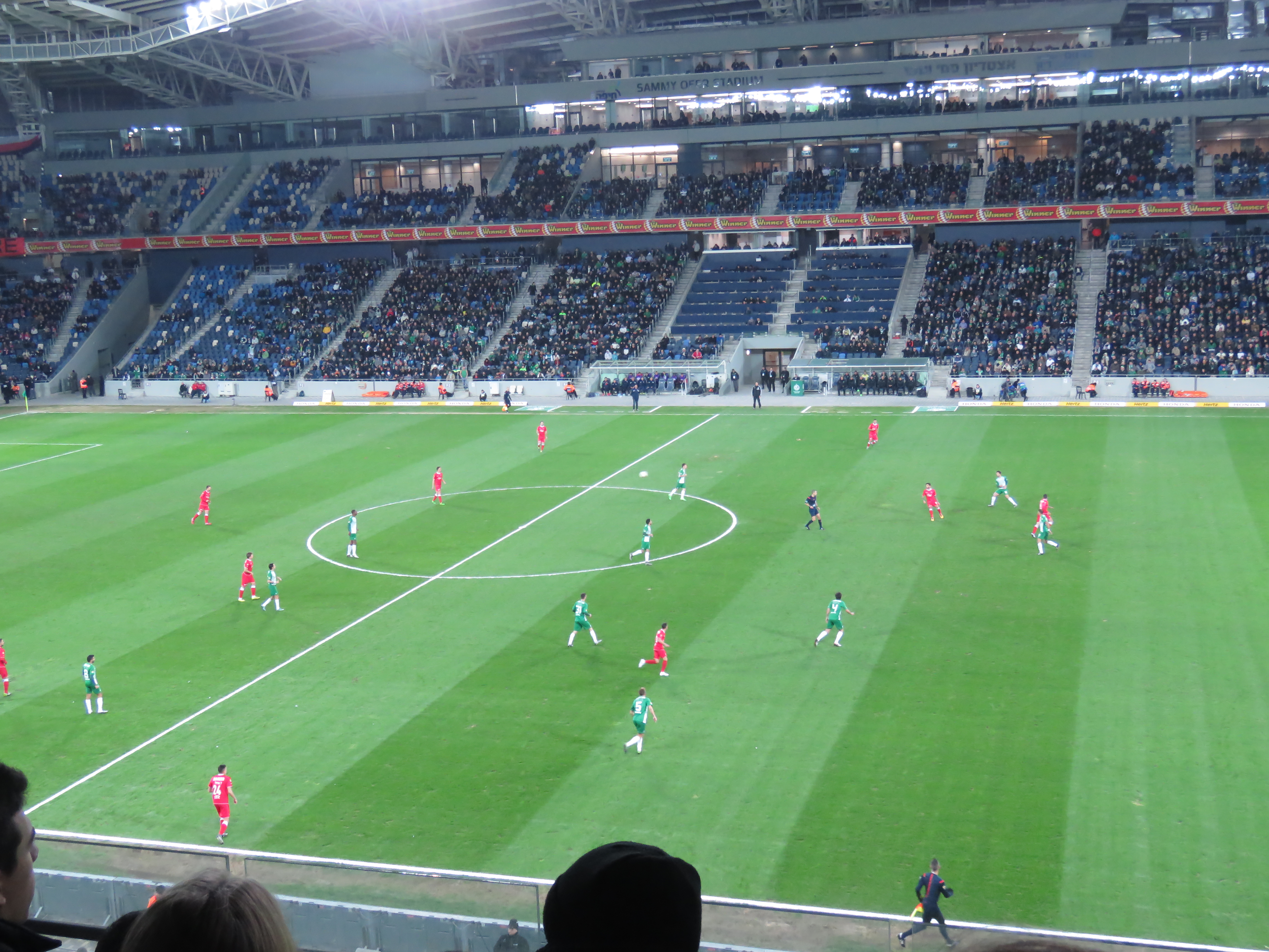 Maccabi Haifa vs. Hapoel Haifa - January 27, 2016